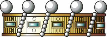 German Freiherrs crown